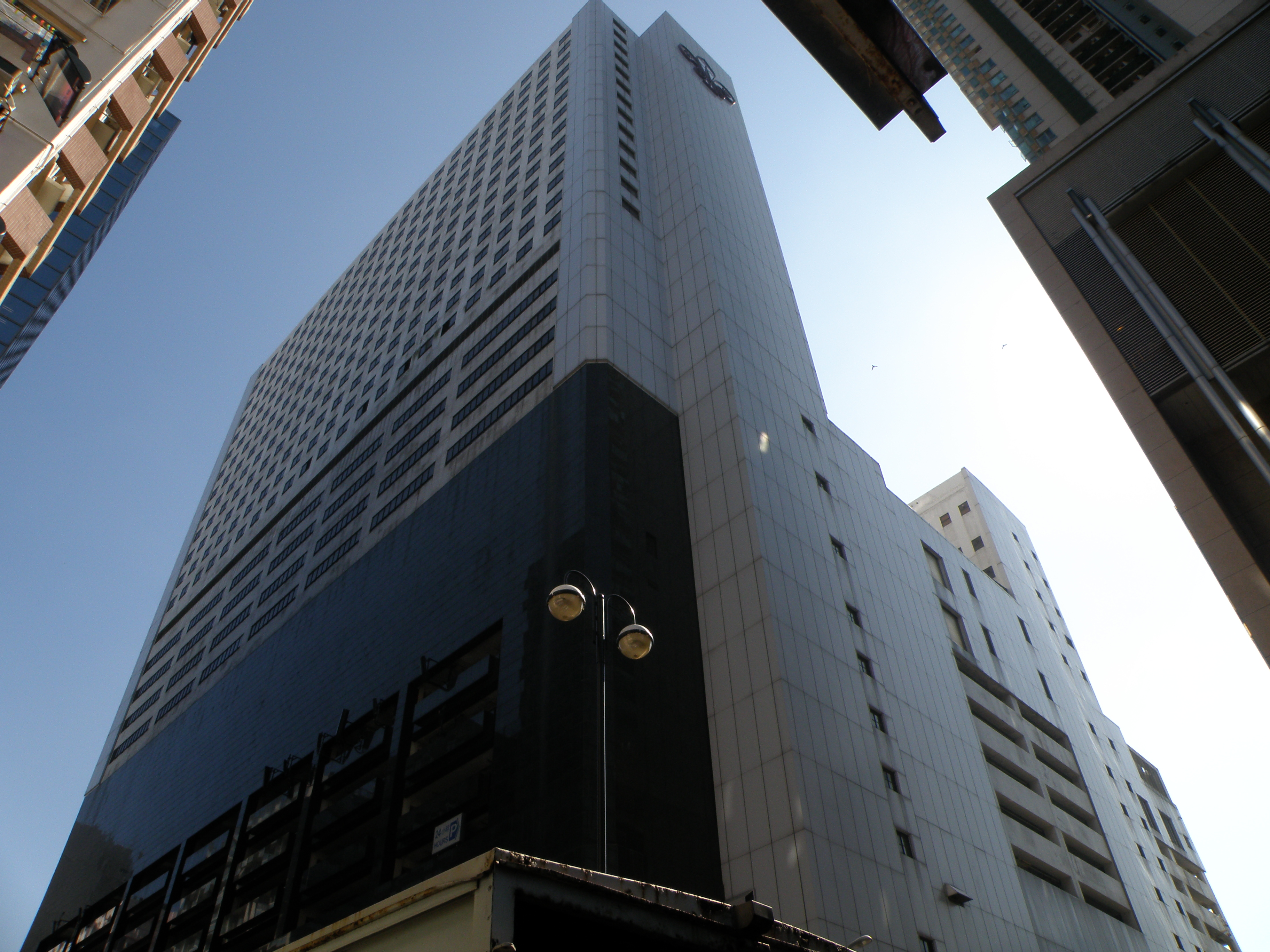 BP International House in Jordan, Hong Kong.